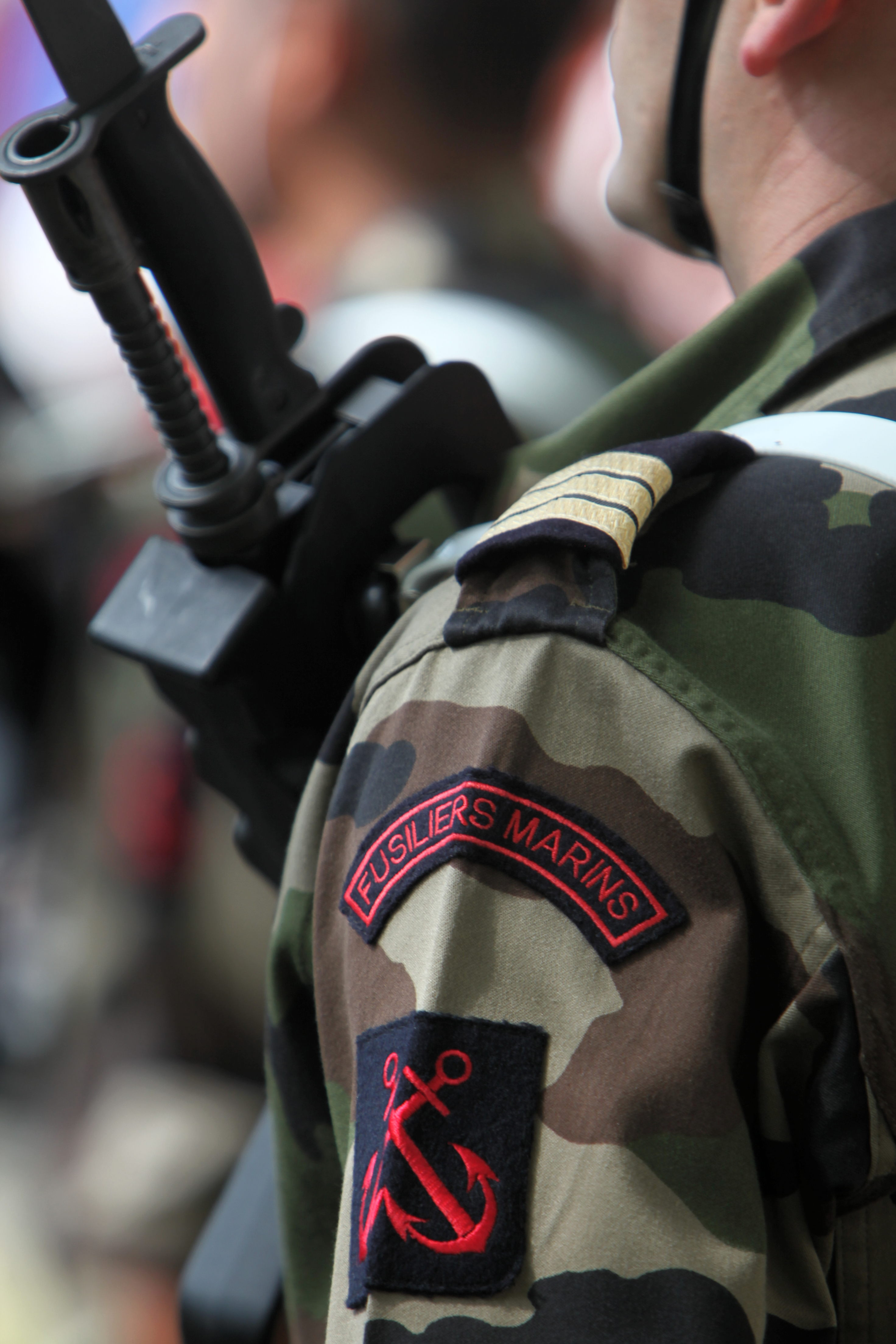 Fusiliers Marins attending ceremonies of the 14 July 2015 in Brest